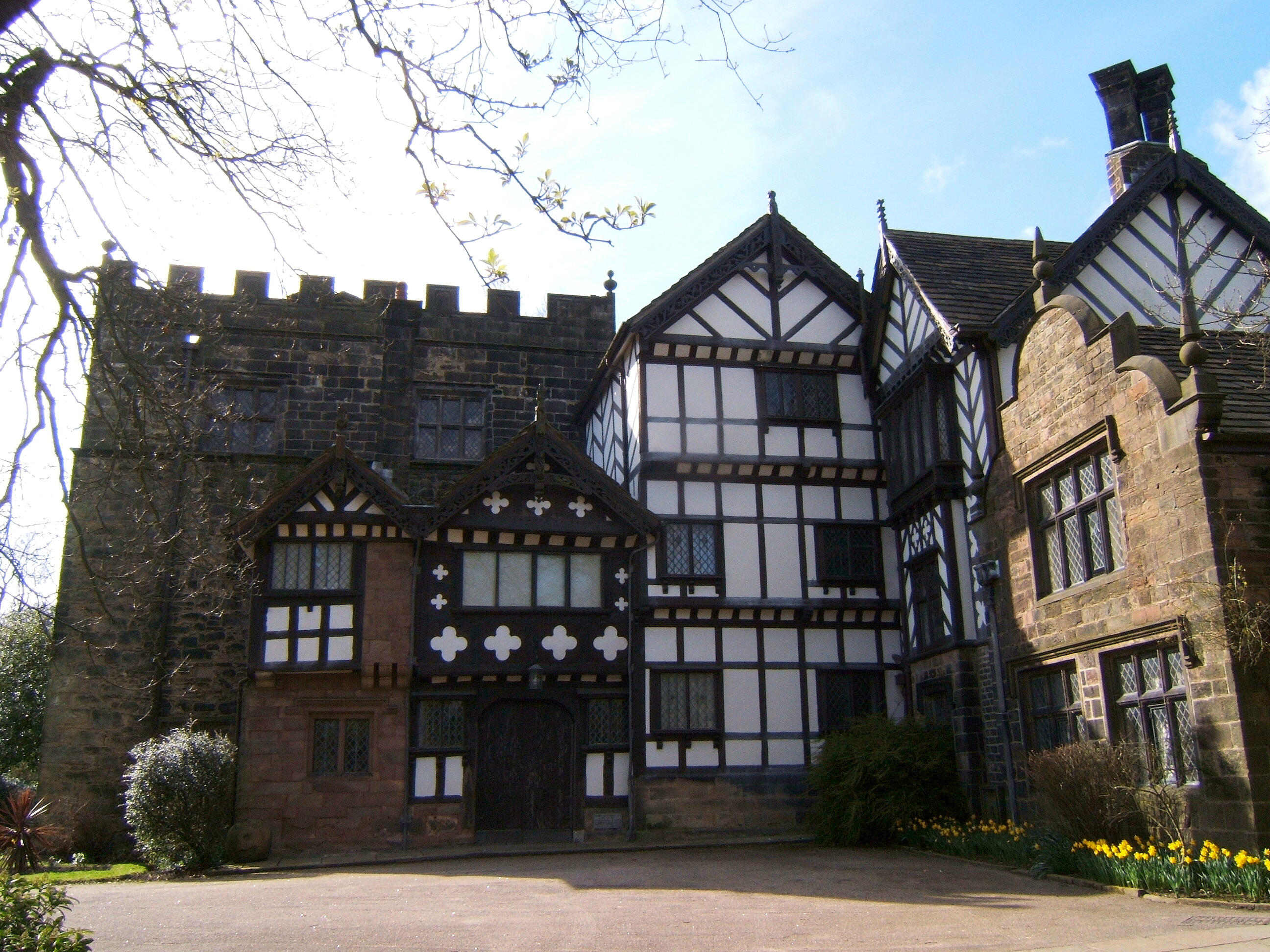 Turton Tower near Chapeltown, Lancashire, England. A medieaval pele tower with later additions. Photograph taken 14 April 2006 by Austen Redman. Digital photograph, gamma corrected.